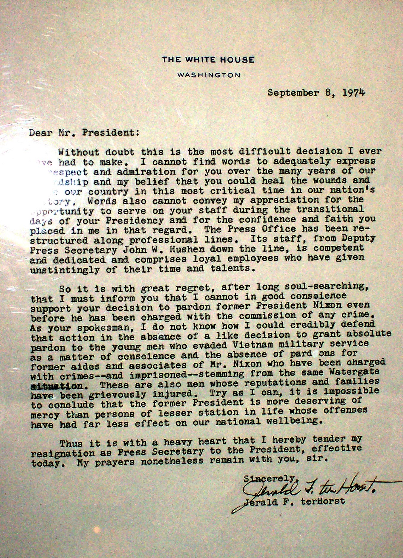 Jerald terHorst's letter of resignation to President Ford, on display in the Ford presidential library in Grand Rapids, MI. The first few lines read, Without a doubt this is the most difficult decision I ever have had to make. I cannot find words to adequately express my respect and admiration for you over the many years of our friendship and my belief that you could heal the wounds and unite our country in this most critical time in our nation's history. Words also cannot convey my appreciation for the opportunity to serve on your staff during the transitional days of your Presidency and for the confidence and faith you placed in me in that regard.